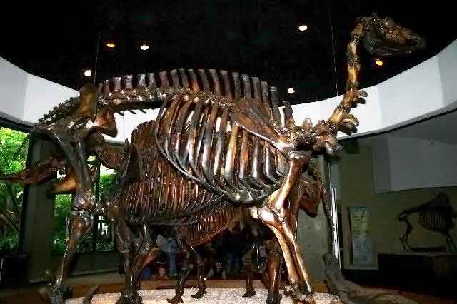 Extinct Camel Camelops hesternus - This extinct camel was the largest of the two types found at Rancho La Brea. Its head was larger, its limbs were longer and its joints were knobbier than the modern dromedary camel